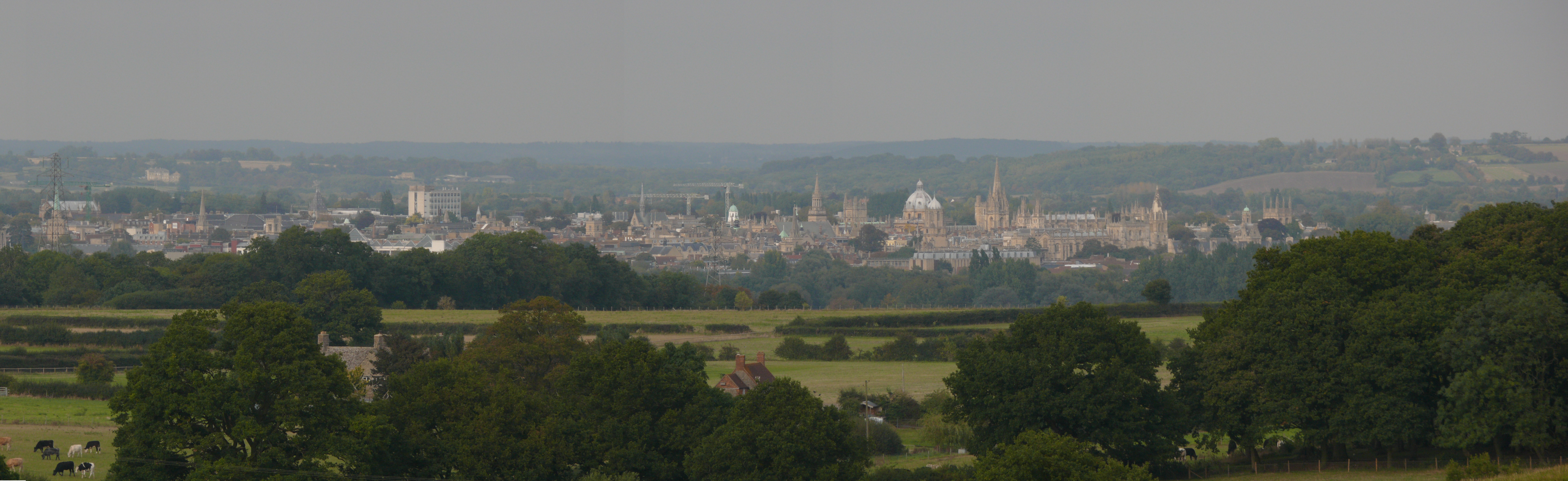 Panorama of Oxford, photographed from Boars Hill. Runs from Keble on the left to Christ Church and Magdalen on the right